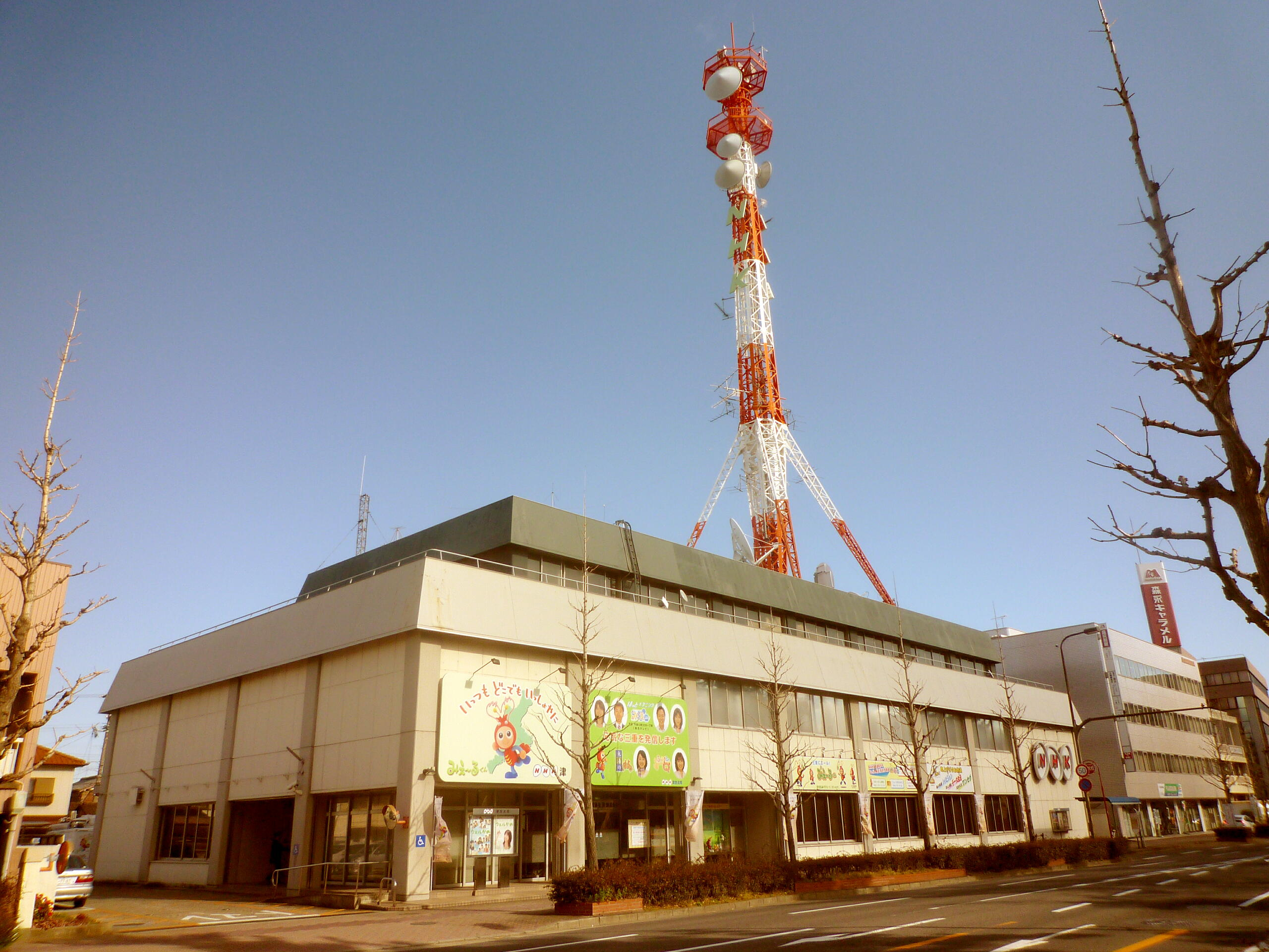 The "NHK Tsu Broadcasting Station" in Marunouchiyōseichō, Tsu, Mie, Japan.